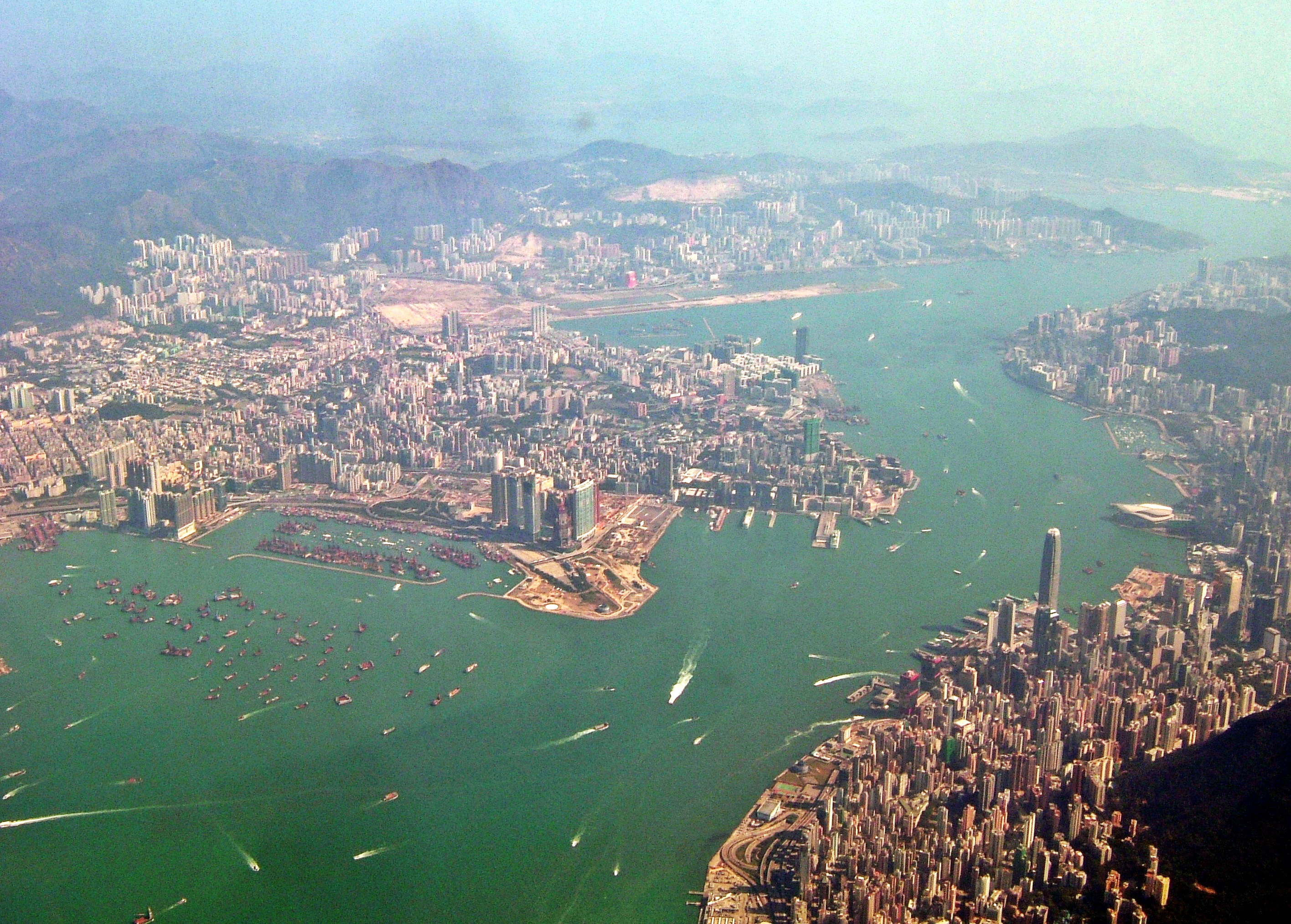 On the left is Kowloon, on the right is Hong Kong.